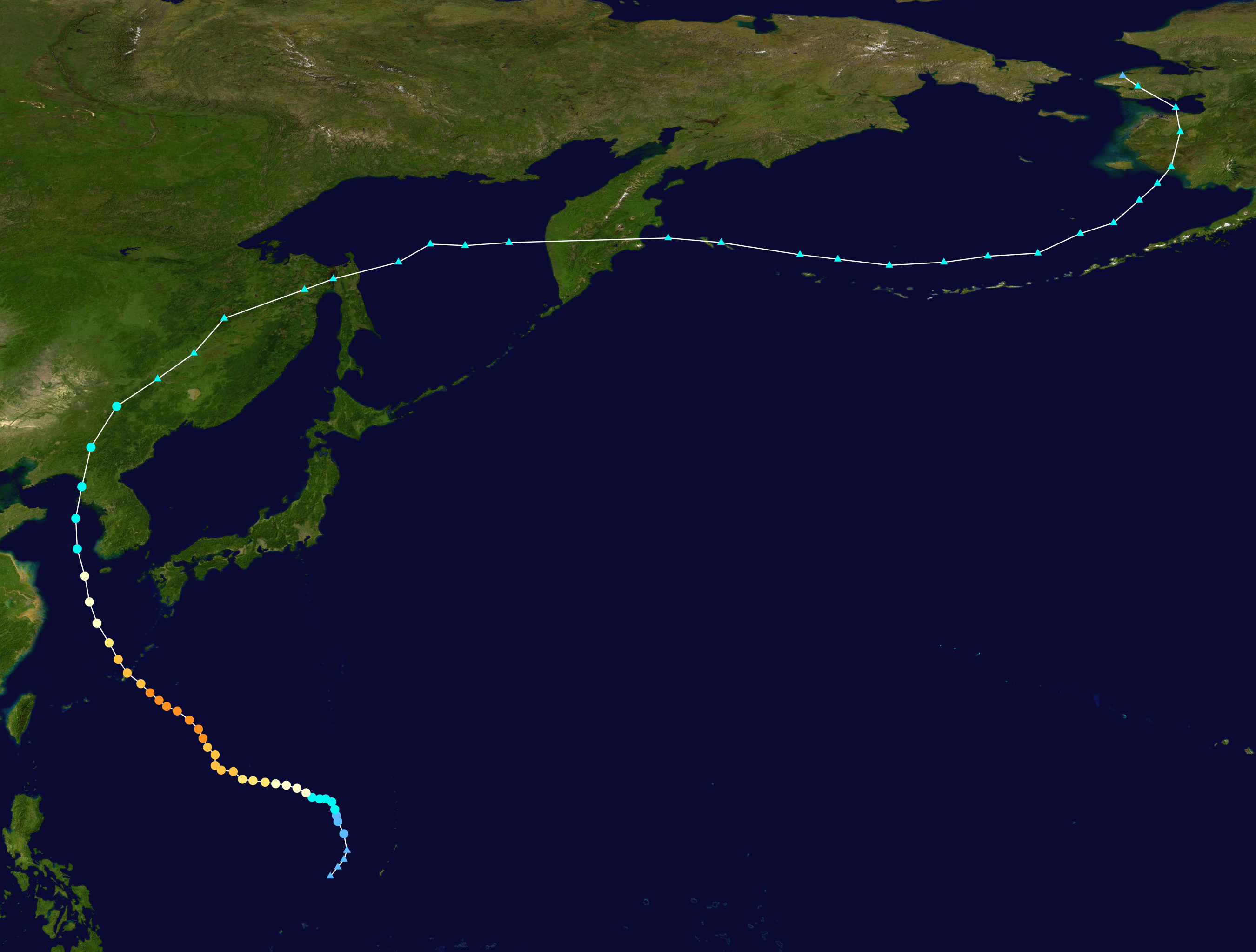 Track map of Typhoon Bolaven of the 2012 Pacific typhoon season. The points show the location of the storm at 6-hour intervals. The colour represents the storm's maximum sustained wind speeds as classified in the Saffir–Simpson scale (see below), and the shape of the data points represent the nature of the storm, according to the legend below. Saffir–Simpson scale Tropical depression≤38 mph≤62 km/h Category 3111–129 mph178–208 km/h Tropical storm39–73 mph63–118 km/h Category 4130–156 mph209–251 km/h Category 174–95 mph119–153 km/h Category 5≥157 mph≥252 km/h Category 296–110 mph154–177 km/h Unknown Storm type Tropical cyclone Subtropical cyclone Extratropical cyclone / Remnant low / Tropical disturbance / Monsoon depression